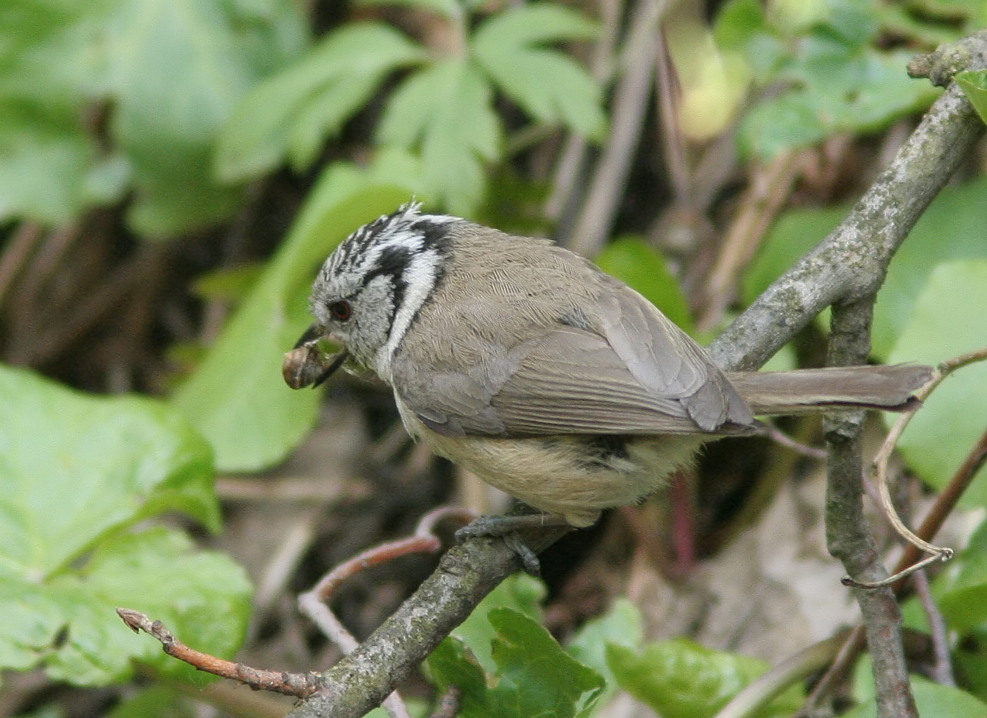 Parus cristatus feeding on a snail, in Lasy Janowskie, Poland